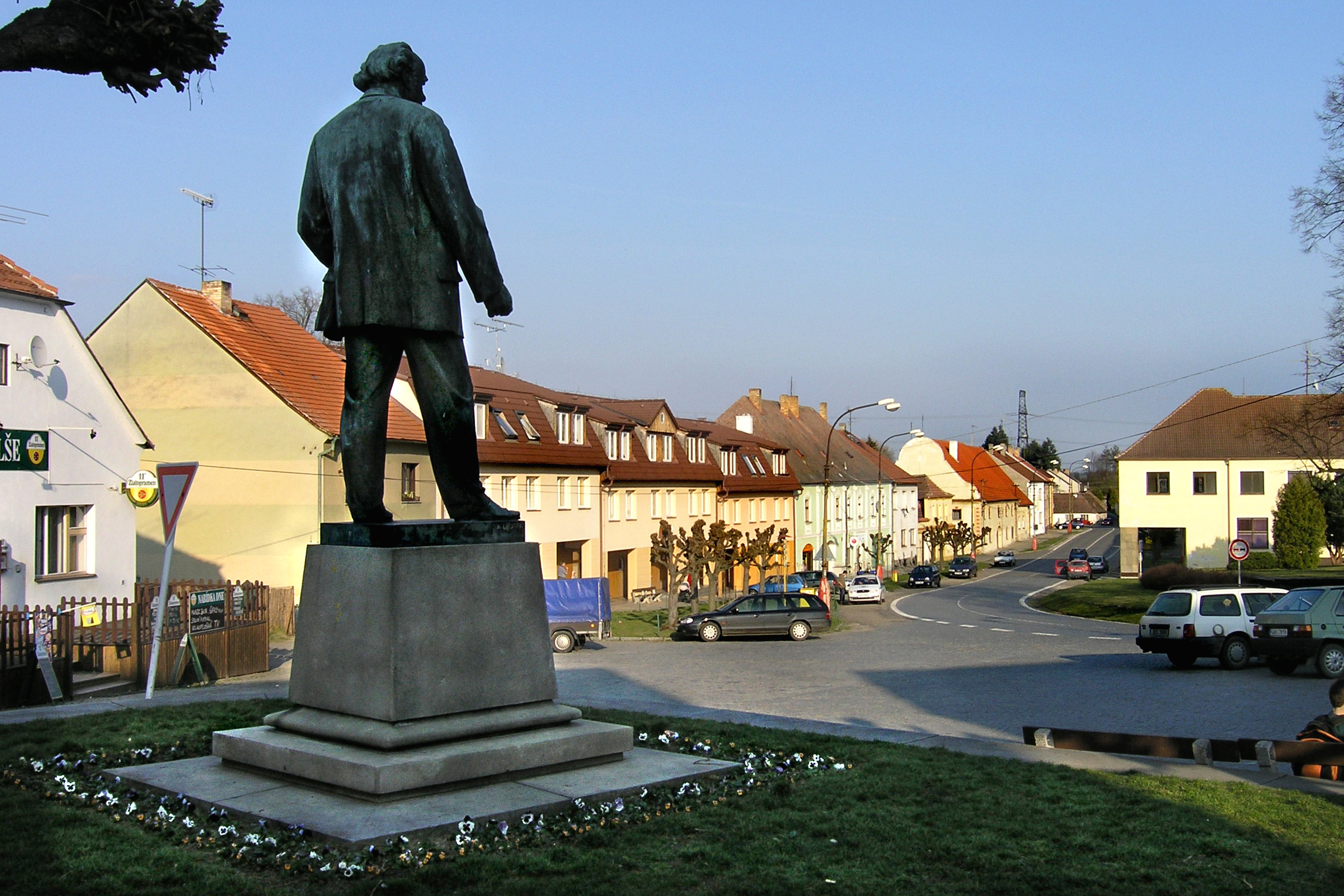 Square at Mirotice, South Bohemia, with a statue of Mikoláš Aleš